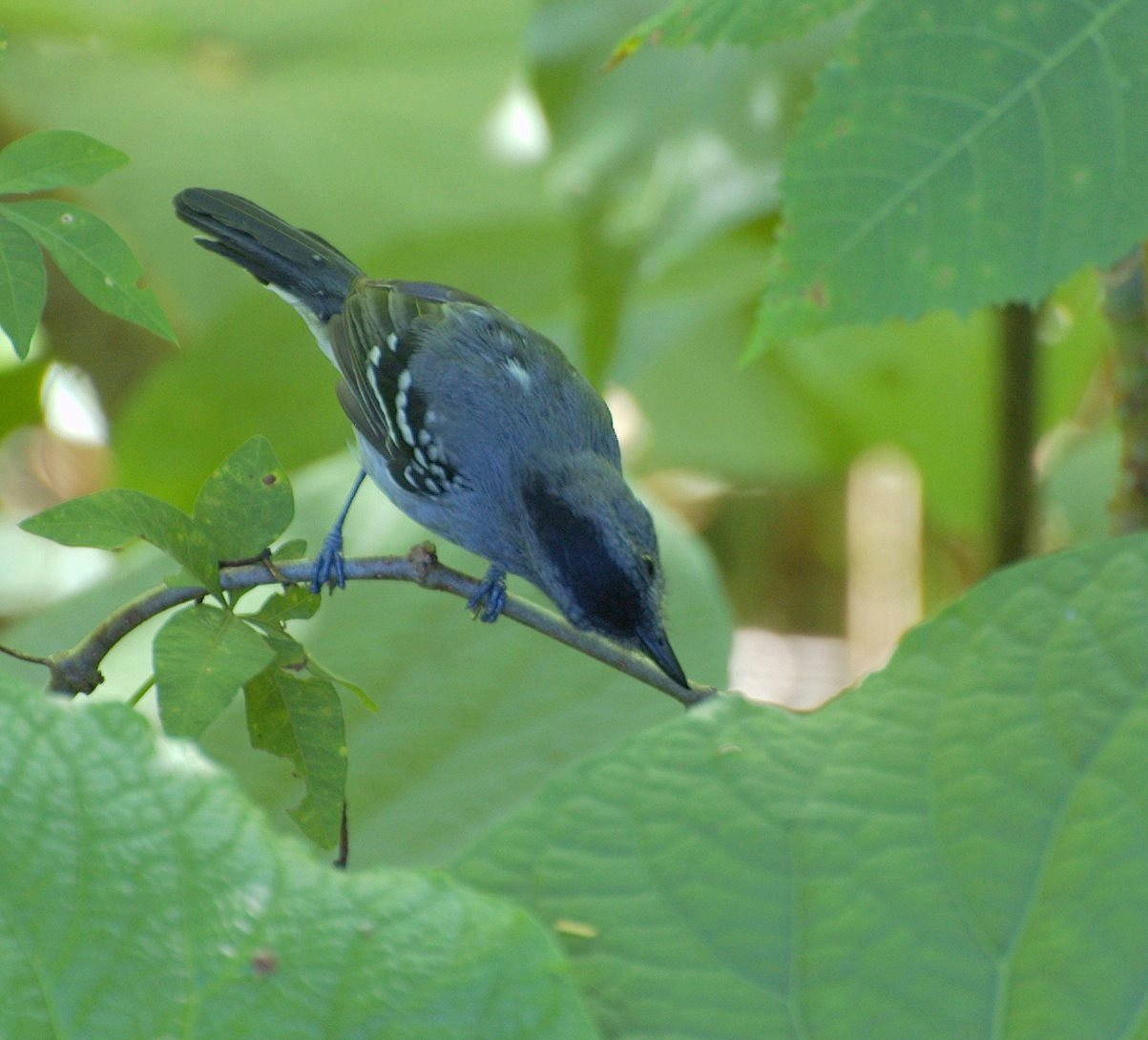 Variable antshrike in Horto Florestal, São Paulo, gleaning for insects